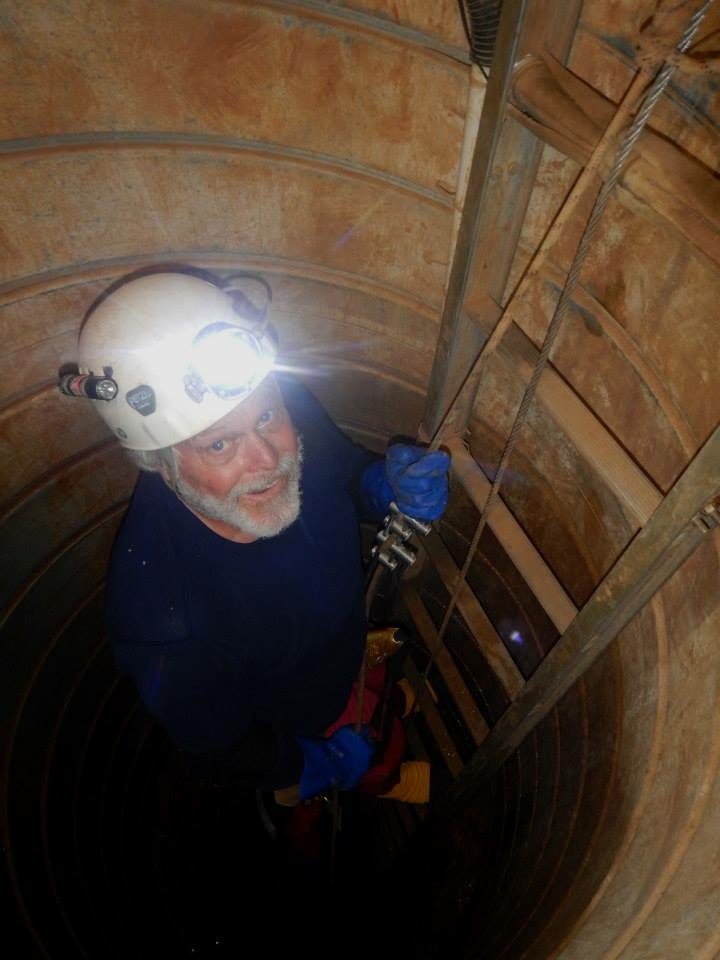 Bill Steele lowering himself down a cave pit.